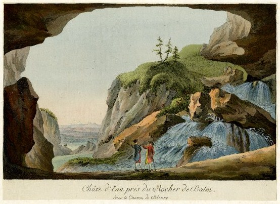 Waterfall seen from a cave, near Balm bei Günsberg, Solothurn, Switzerland.